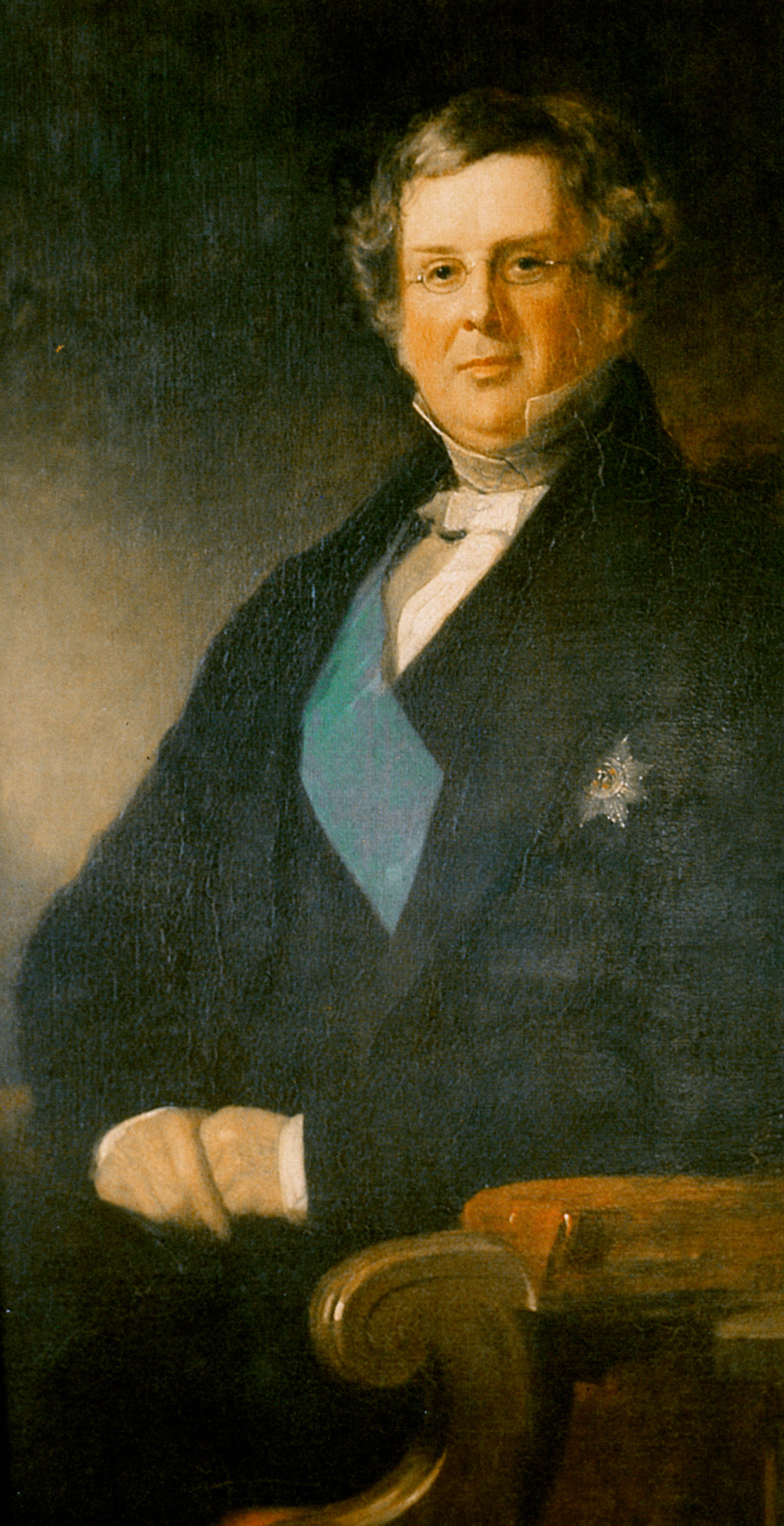 Portrait of William Parsons, 3rd Earl of Rosse (1800-1867) was an Irish astronomer.